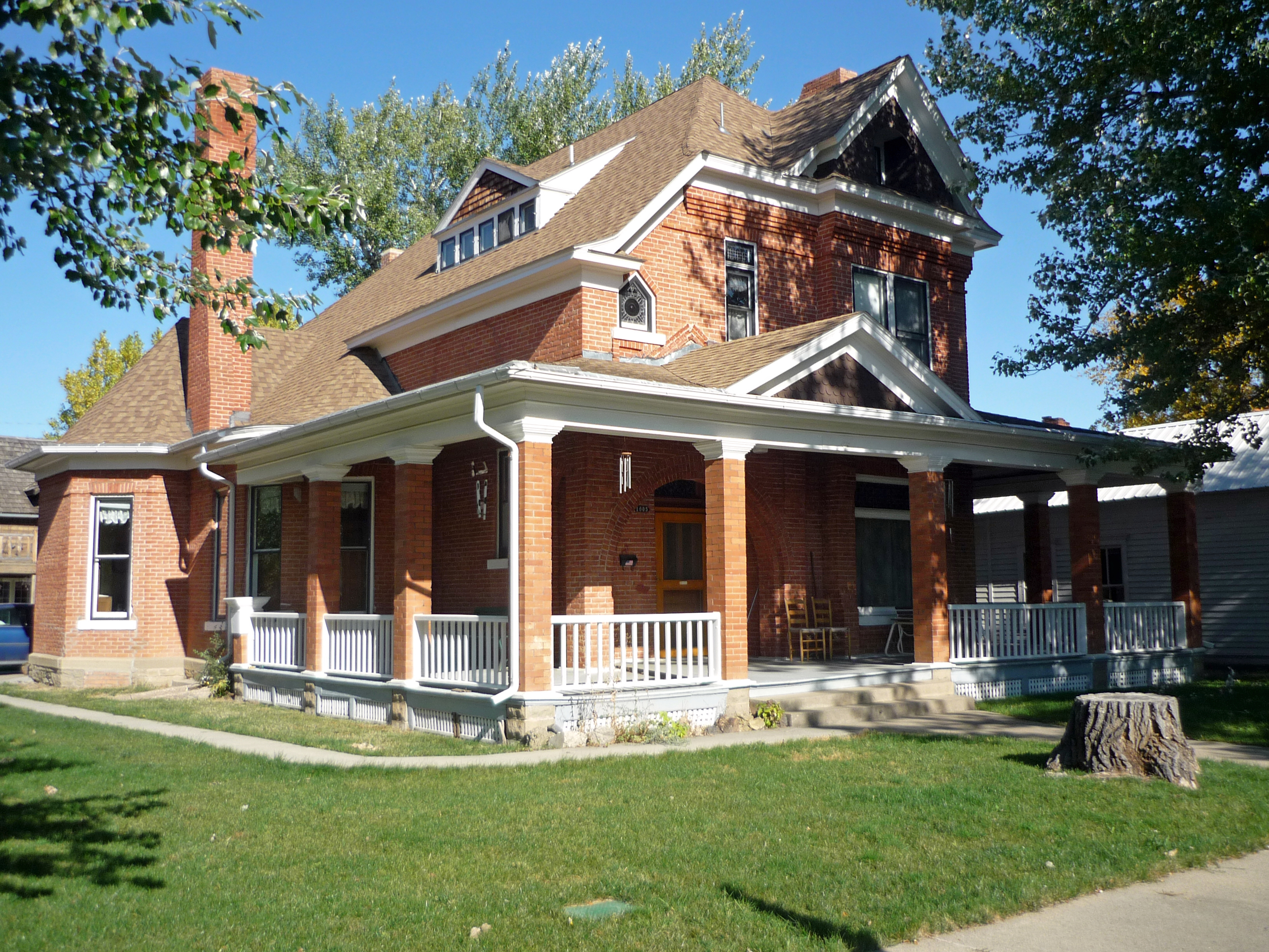 National Register of Historic Places building in Miles City, Montana